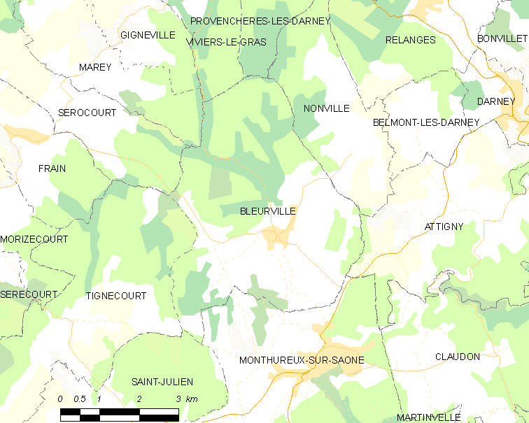 Map of French municipality Bleurville